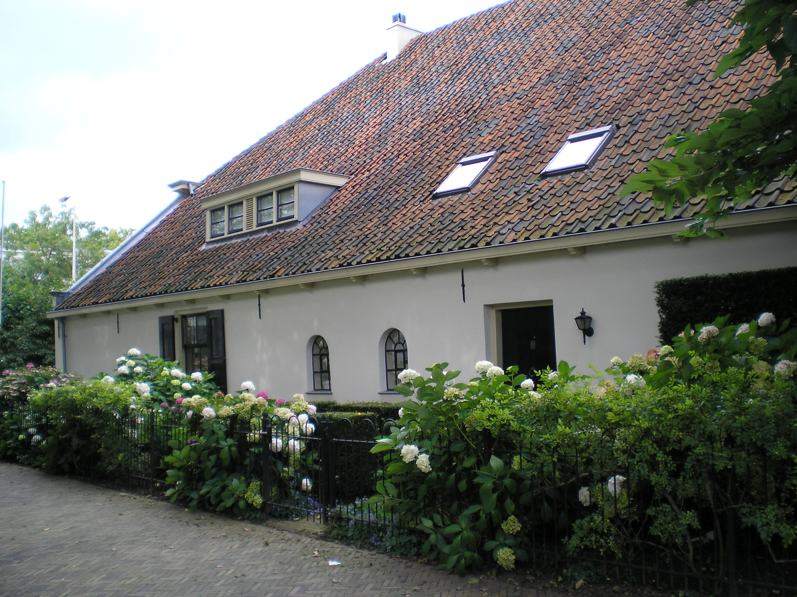 Wulpstraat in Utrecht in the Netherlands